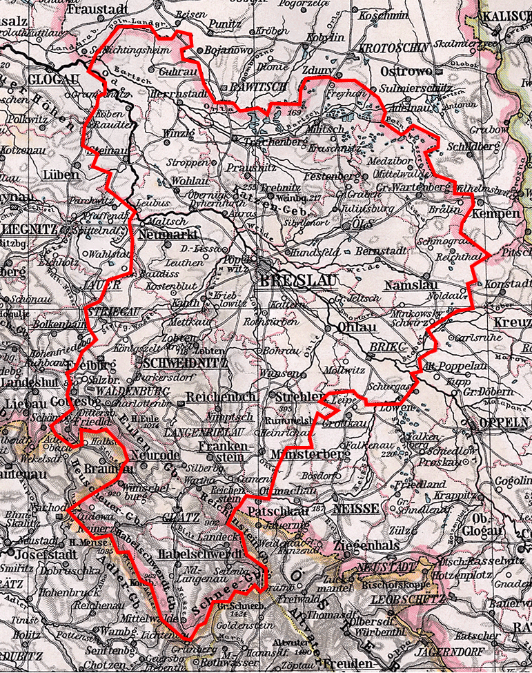 Detail from a map of Silesia.